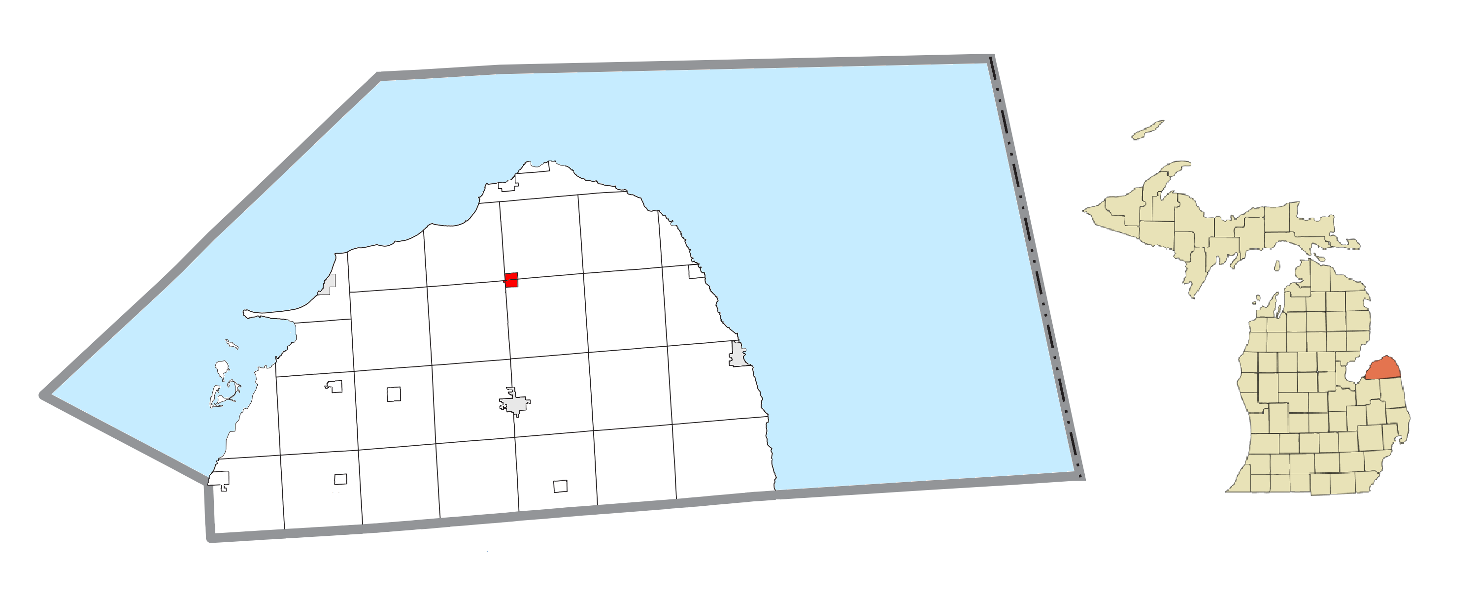 Kinde, MI